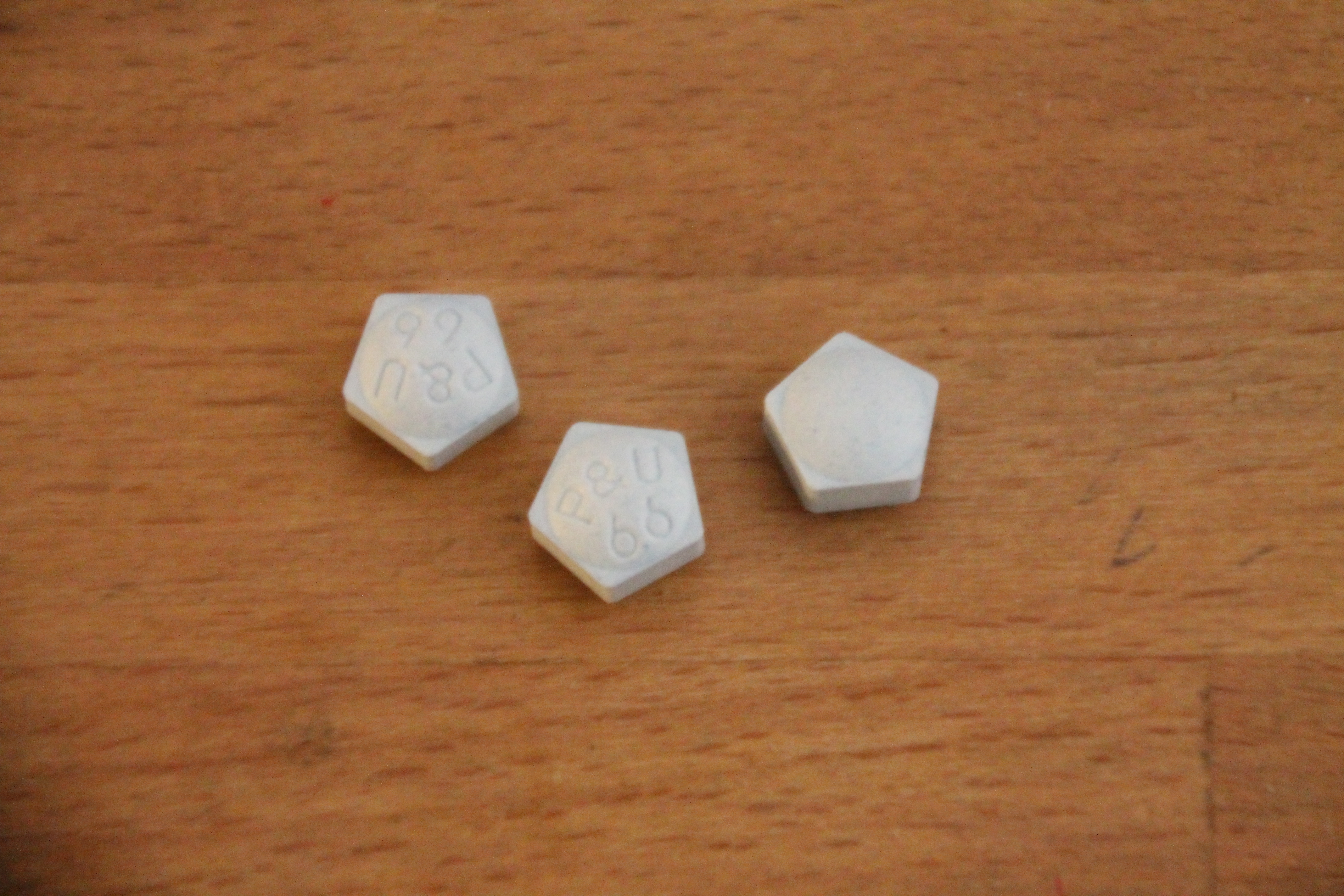 Finnish Xanor Depot 2mg -tablets.